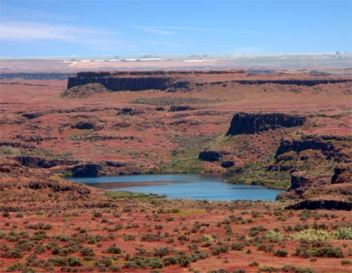 Drumheller Channels; East edge of the Royal Slope in the Columbia Valley south of the Pot Holes Reservoir by 10 miles; the lake I believe is Black Lake.